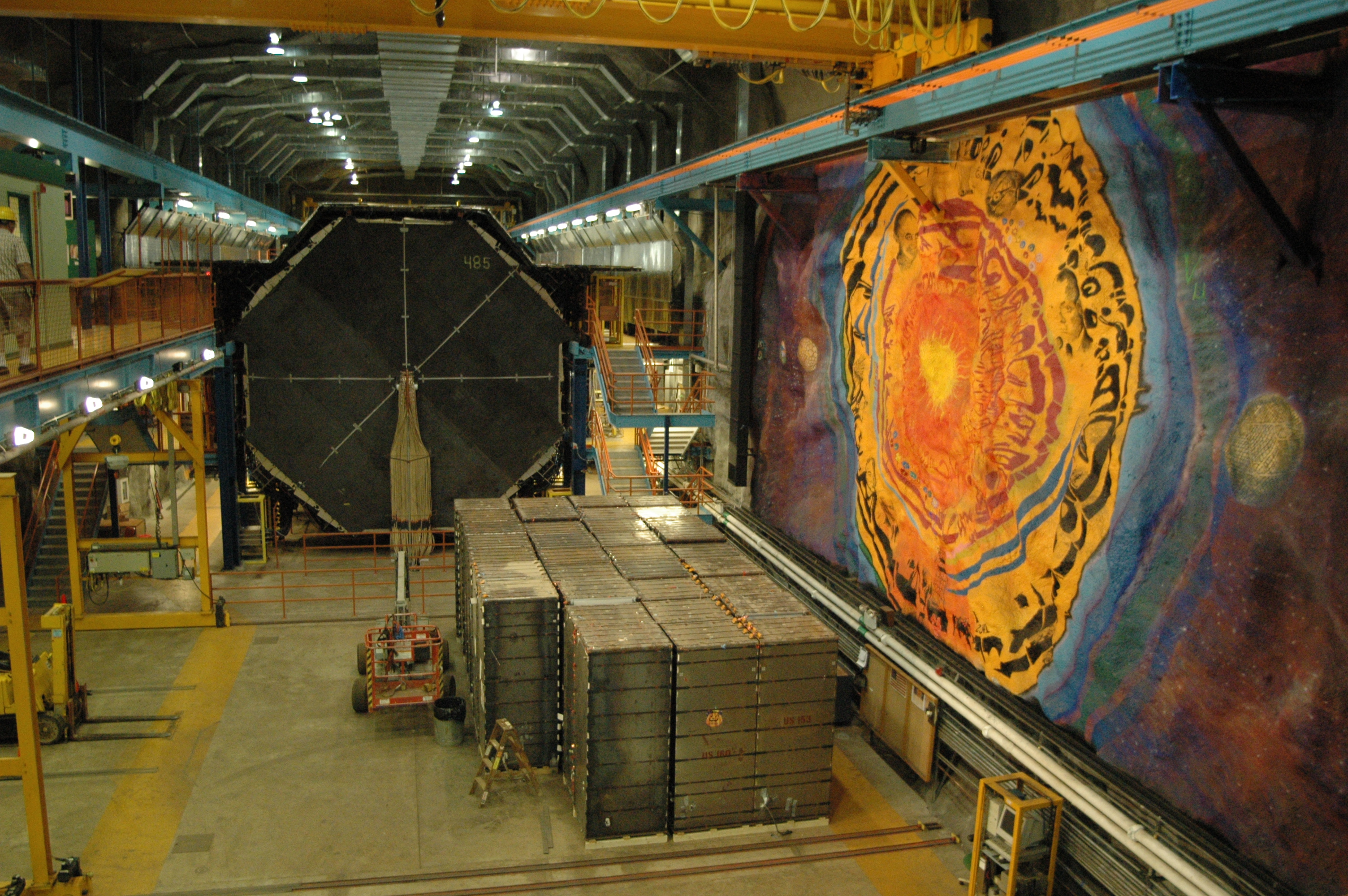 Picture of the MINOS detector in the Soudan Underground Mine State Park, during (re)construction.